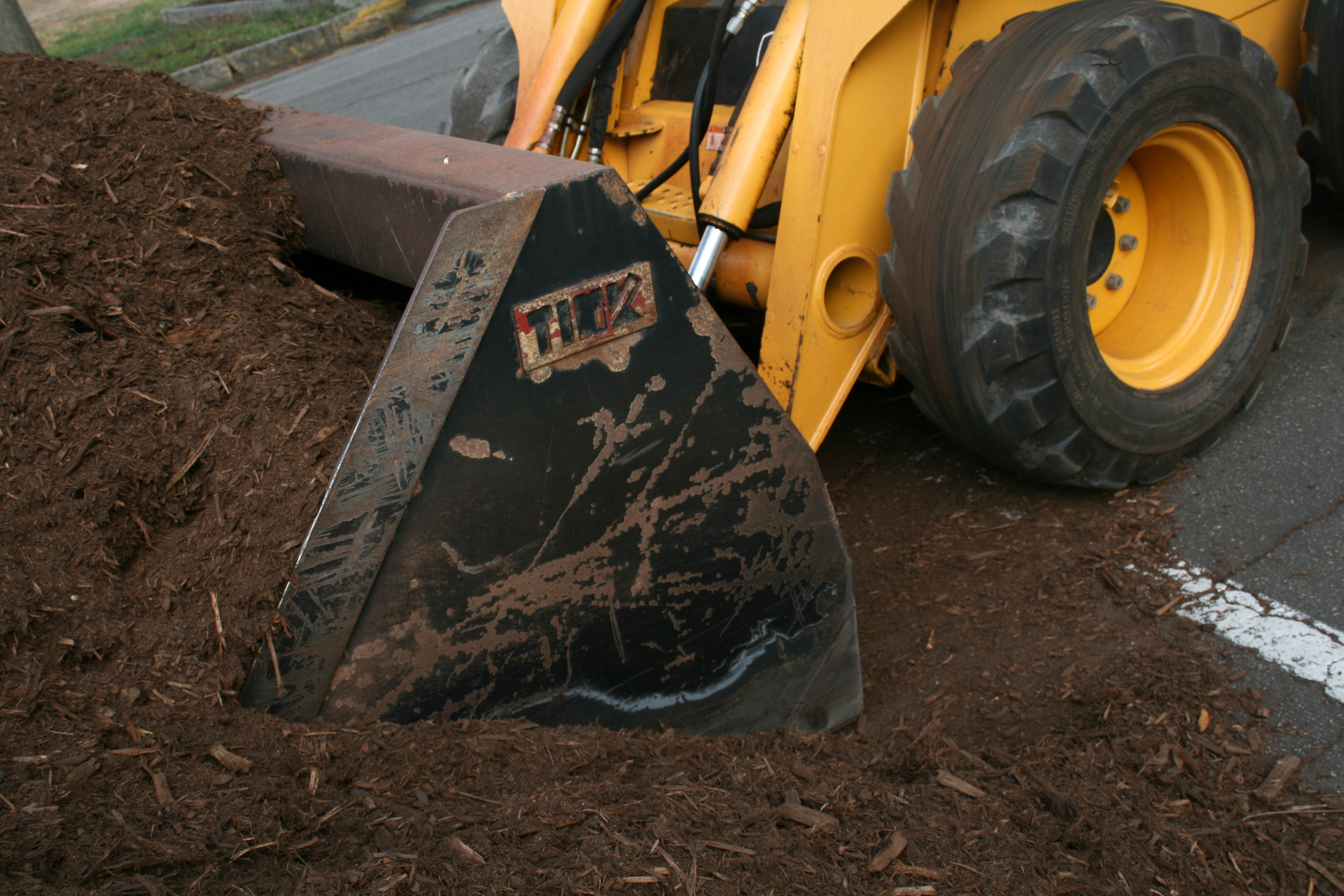 John Deere 280 skid steer moving mulch at Duke University.